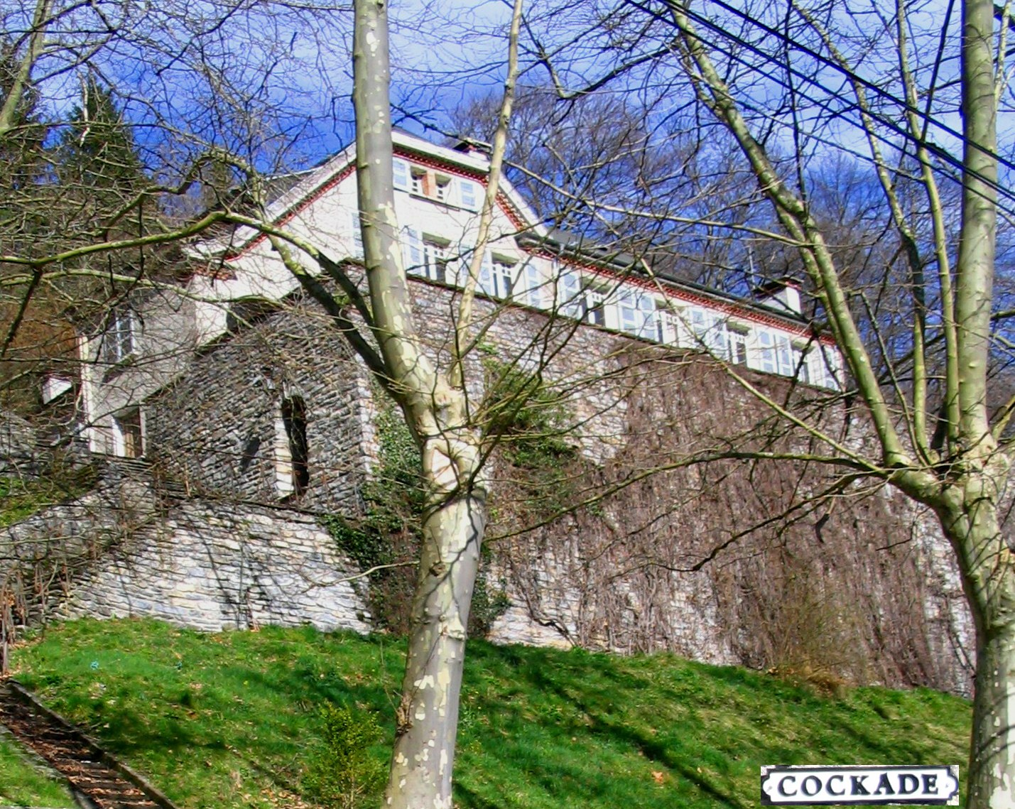 House of the british novelist Dornford Yates in the french Pyrenees - Eaux-Bonnes Author:P.Charpiat 2007